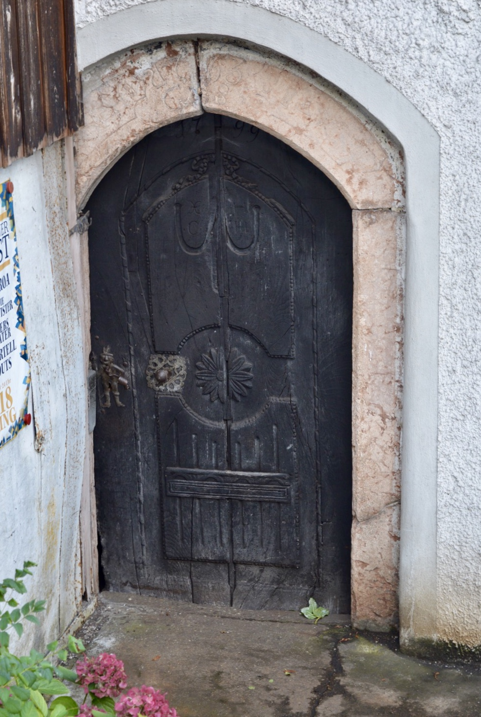 This is a photograph of an architectural monument.